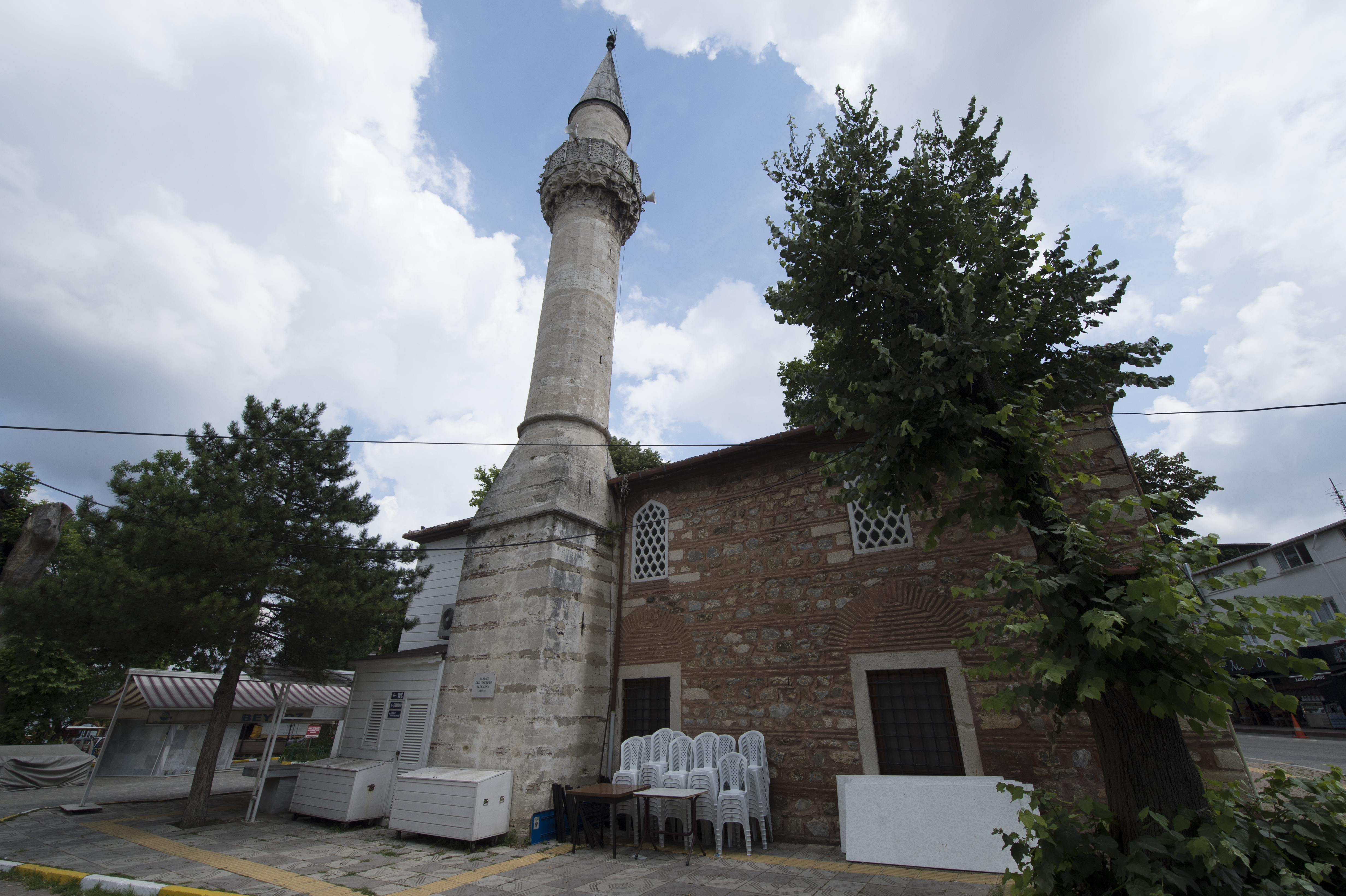 The mosque dates from 1559-60, the founder was vezir who was governor of Bosnia. Strolling through Istanbul says “It is of the simplest type, has a wooden porch and roof with a flat ceiling, but both porch and roof are clearly later, indeed modern.” Formerly there seems to have been a dome inside, which is now absent. The founders türbe is nearby. Inside a man was reciting the Koran all by himself. He told me he went through that book several times a year. We had a conversation, he did not mind having his picture taken.